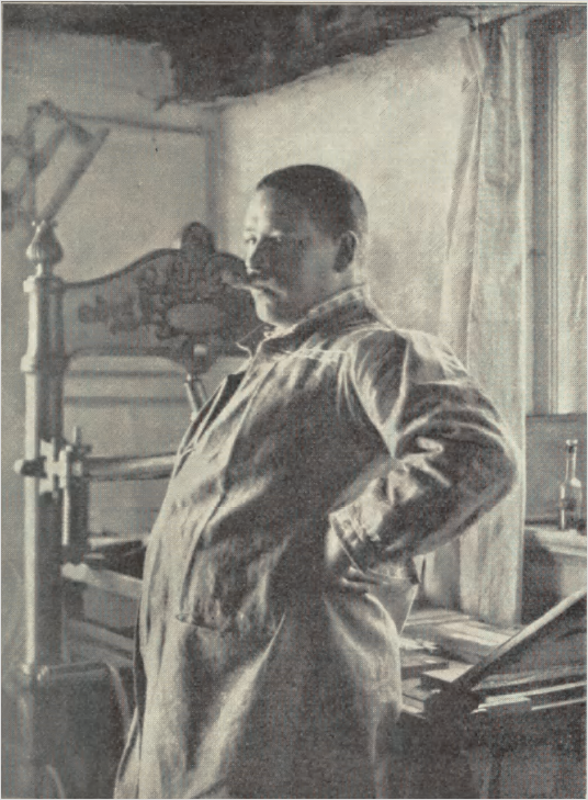 Kristian Kongstad 1867-1929 − Danish drawer, woodcutter, printer, and book illustrator Biography in Dansk Biografisk Leksikon